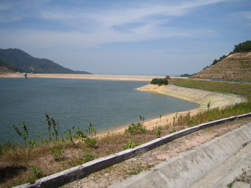 This supplies Penang with fresh water for consumption.